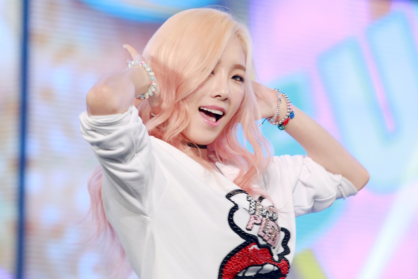 Taeyeon at M! Countdown on July 23, 2015.